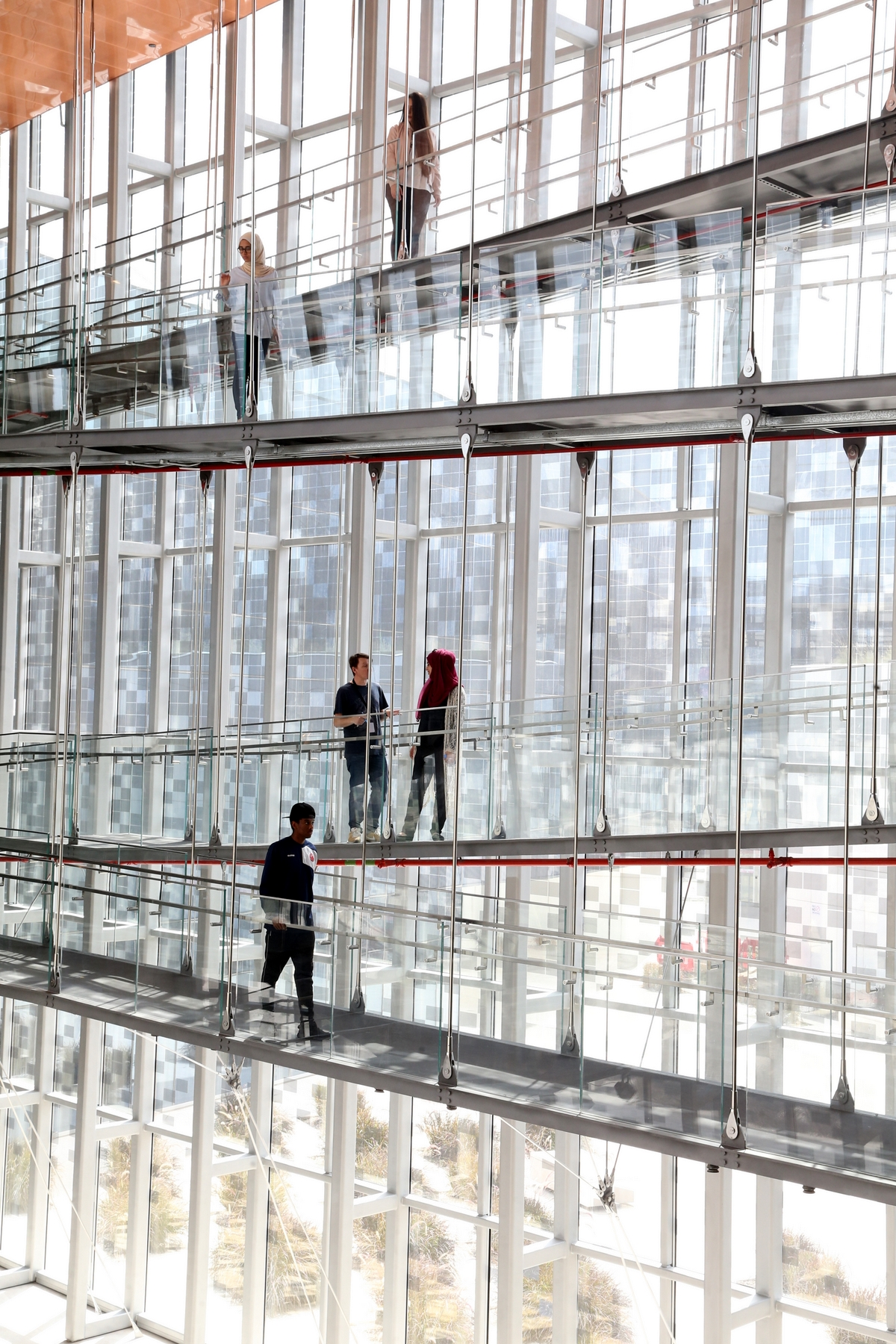 Students walking through The Forum